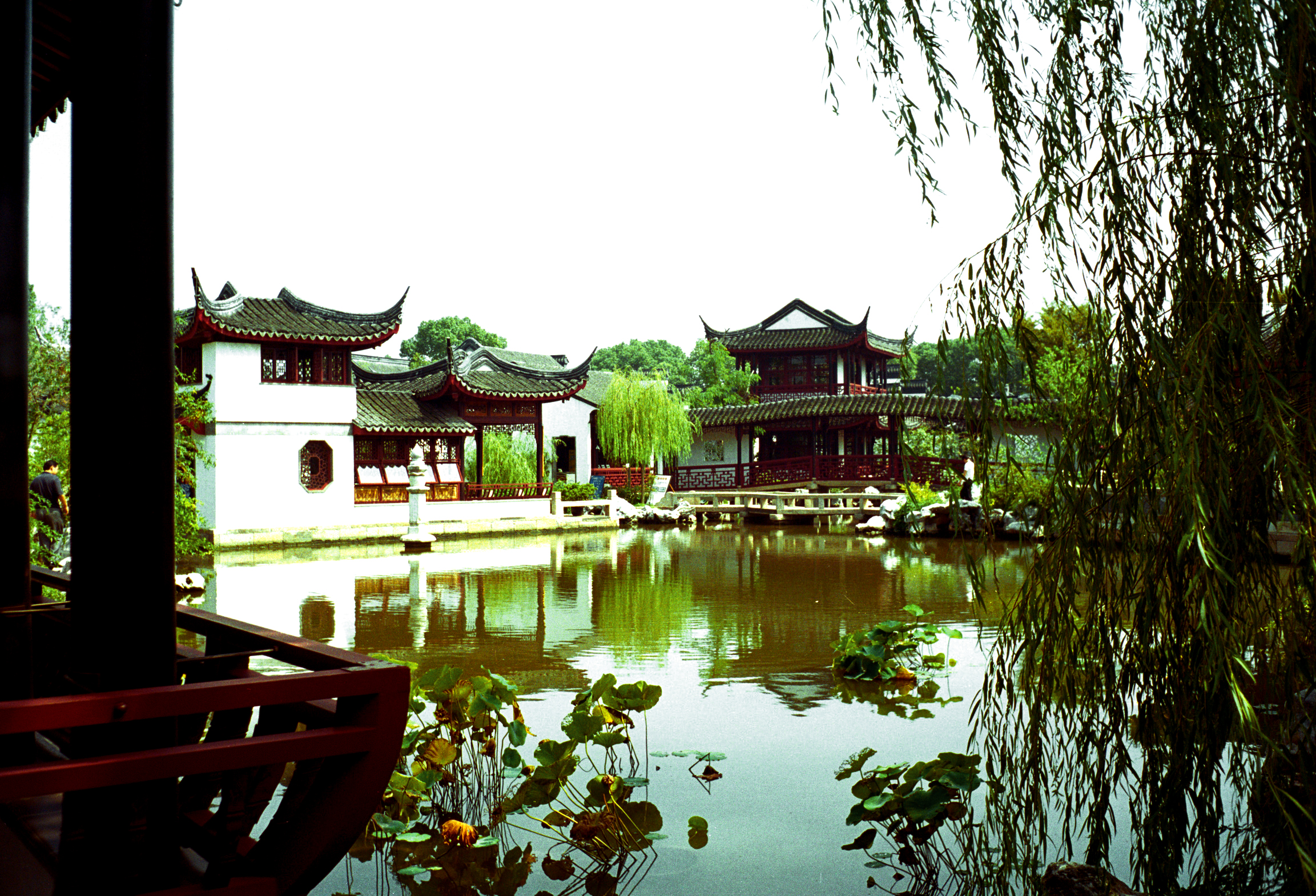 Retreat & Reflection Garden — Suzhou.